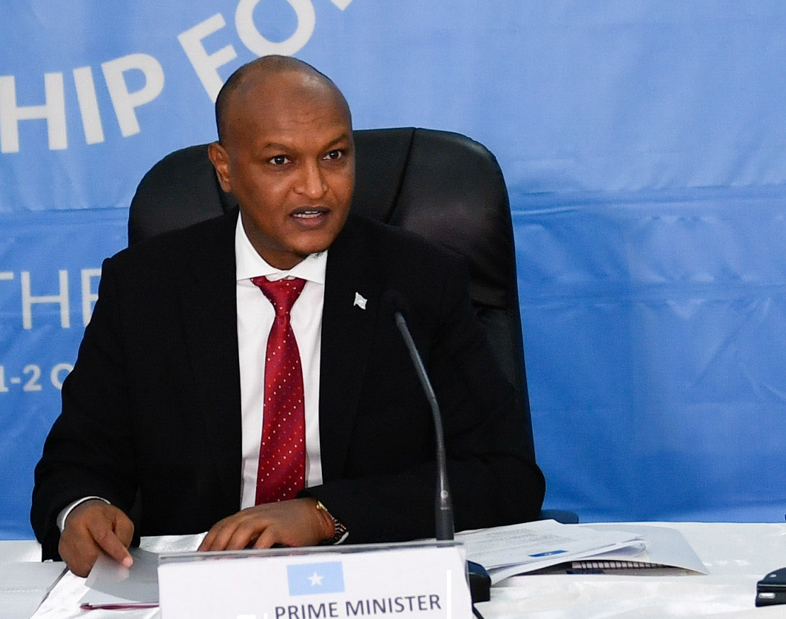 prime minister mahdi gulaidh khadar - cropped version